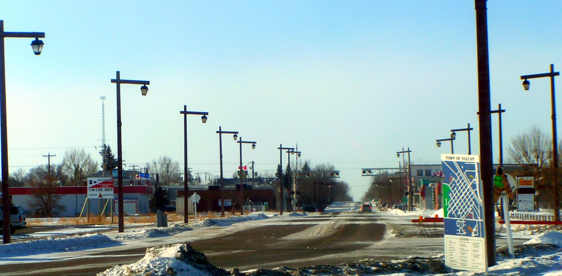 Centre street in Vulcan, Alberta, Canada